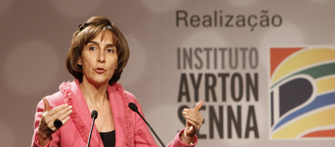 Viviane Senna at the Seminário Educação para o Século 21.